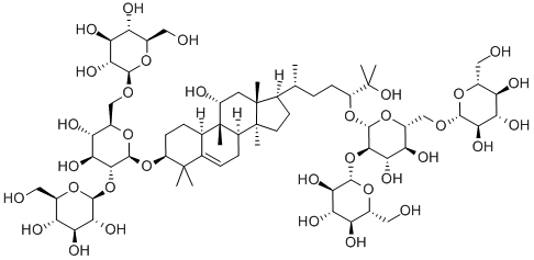 Mogroside VI